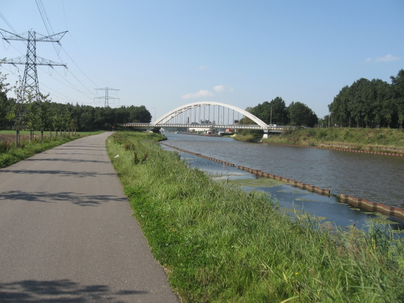 Bridge of the Dutch Provincial Road 347 passing the Twentekanaal near Goor